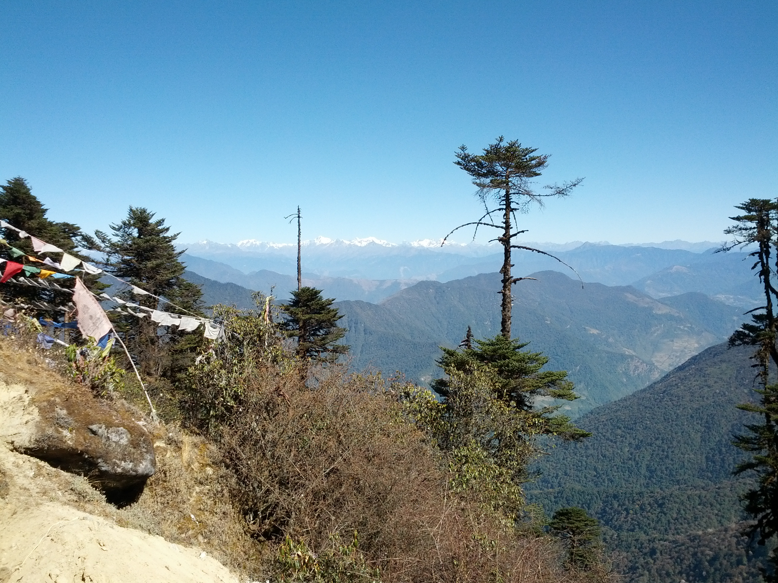 View of scenery from Thrumshing La.